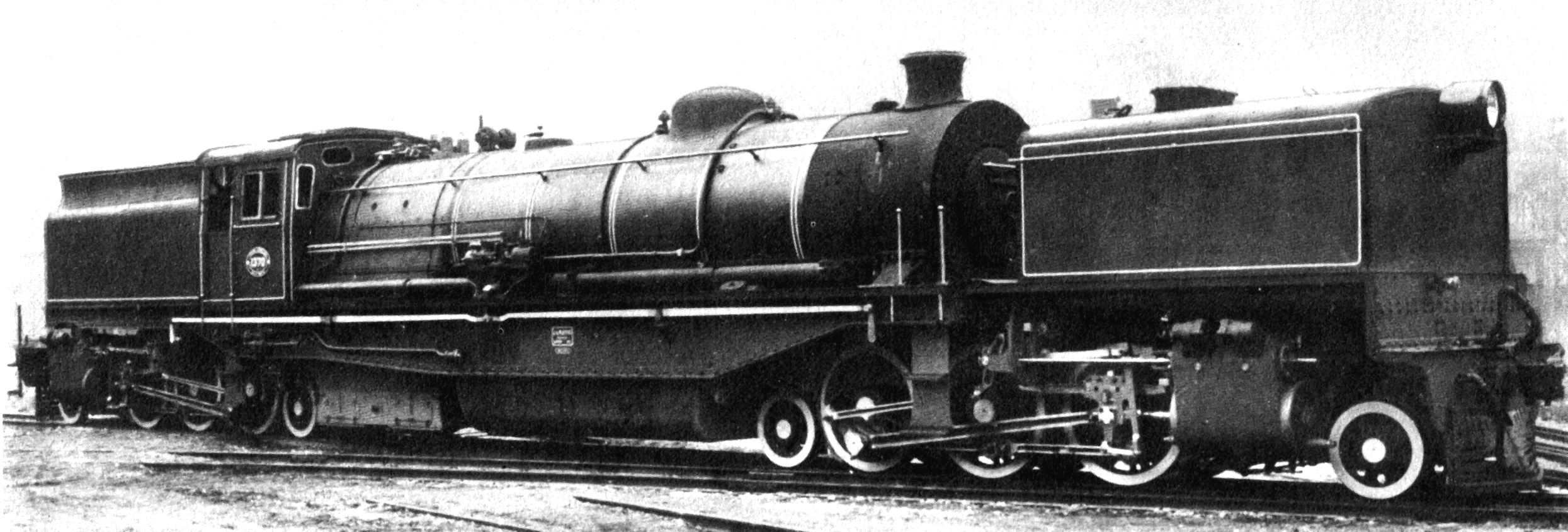 It's not a real Garratt, it's a "Union Garratt", because the rear water tank and the coal bunker are sitting on the main (center) frame.